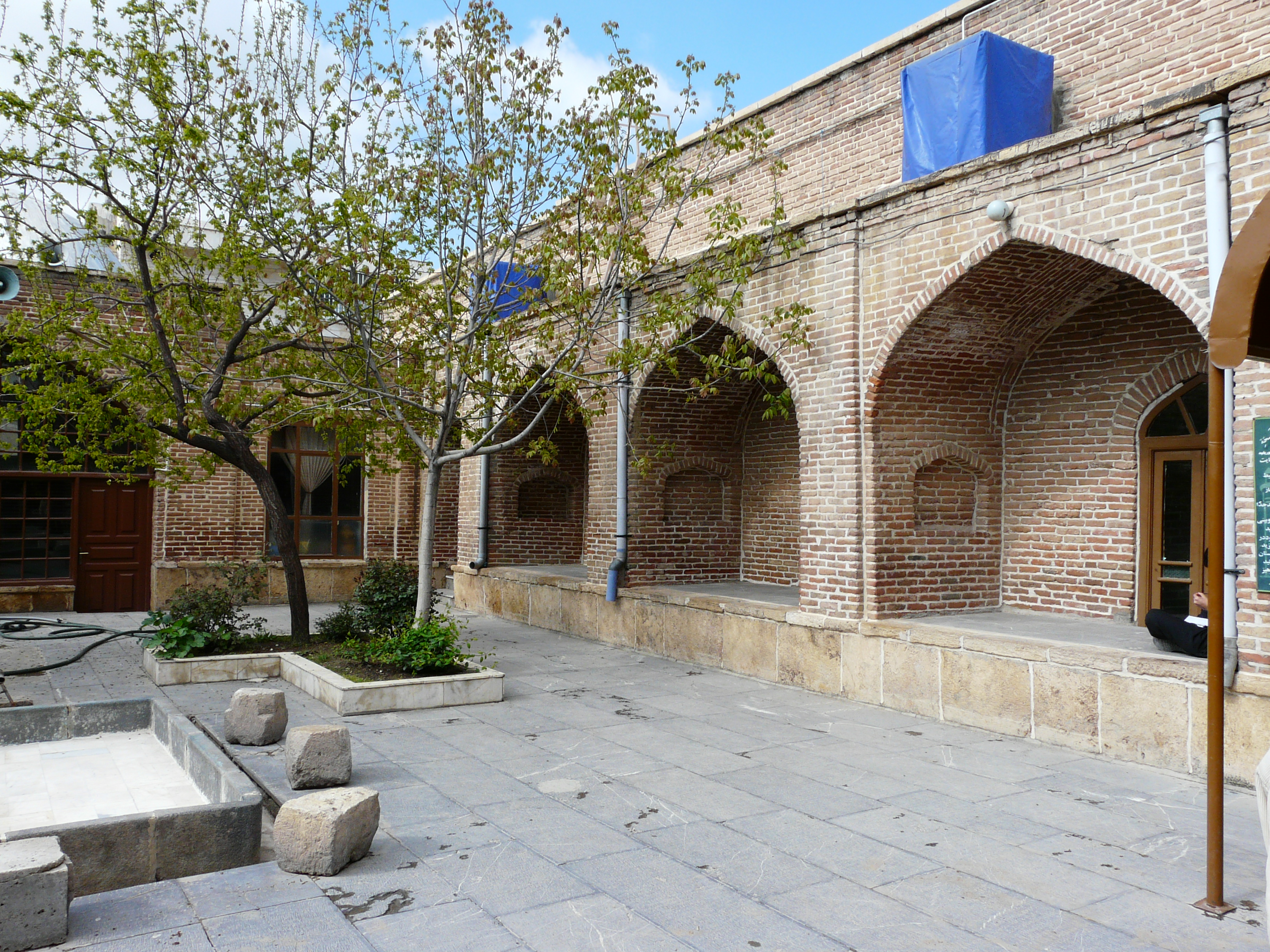 SOOR MOSQUE of Mahabad city Kurdî: مزگەوتی سووری مەهاباد